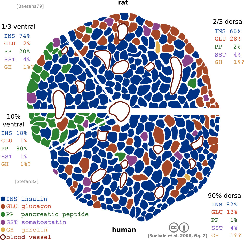 schematic of cellular composition of rat and human pancreatic islets; shows fraction of dorsal and ventral pancreas as well as insulin, glucagon, PP (pancreatic polypeptide), somatostatin, and ghrelin cells